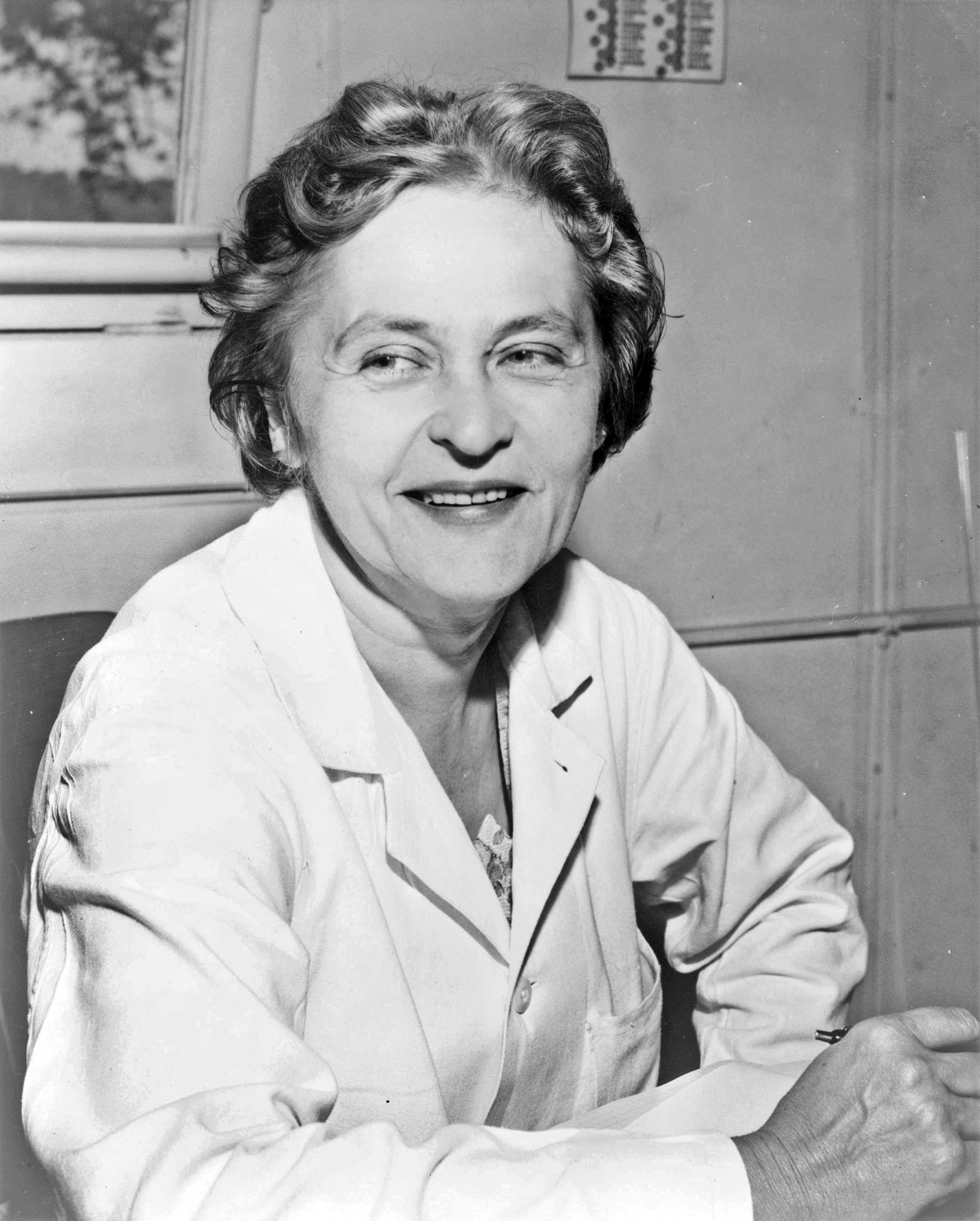 Dr. Maria Telkes half-length portrait, facing front